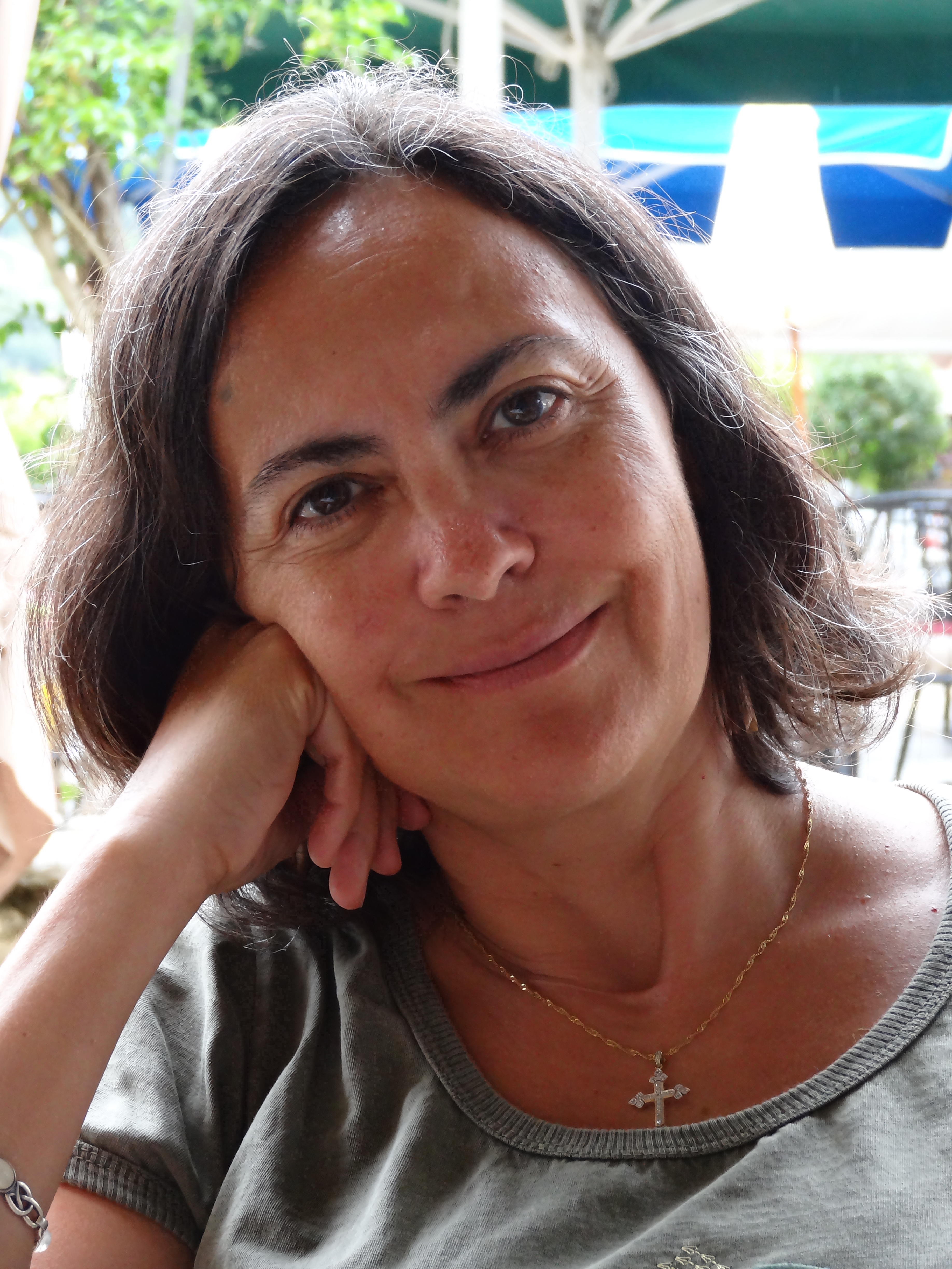 Пред църквата „Света София“.